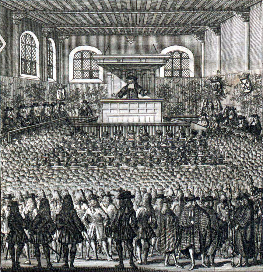 Herman Boerhaave (1668–1738) in a lecture at the University of Leiden